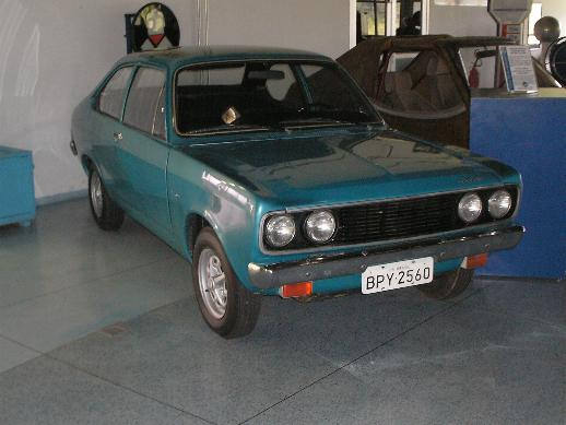 First alcohol-propelled automobile constructed in Brazil. Exposed in Memorial Aeroespacial Brasileiro, in São José dos Campos .